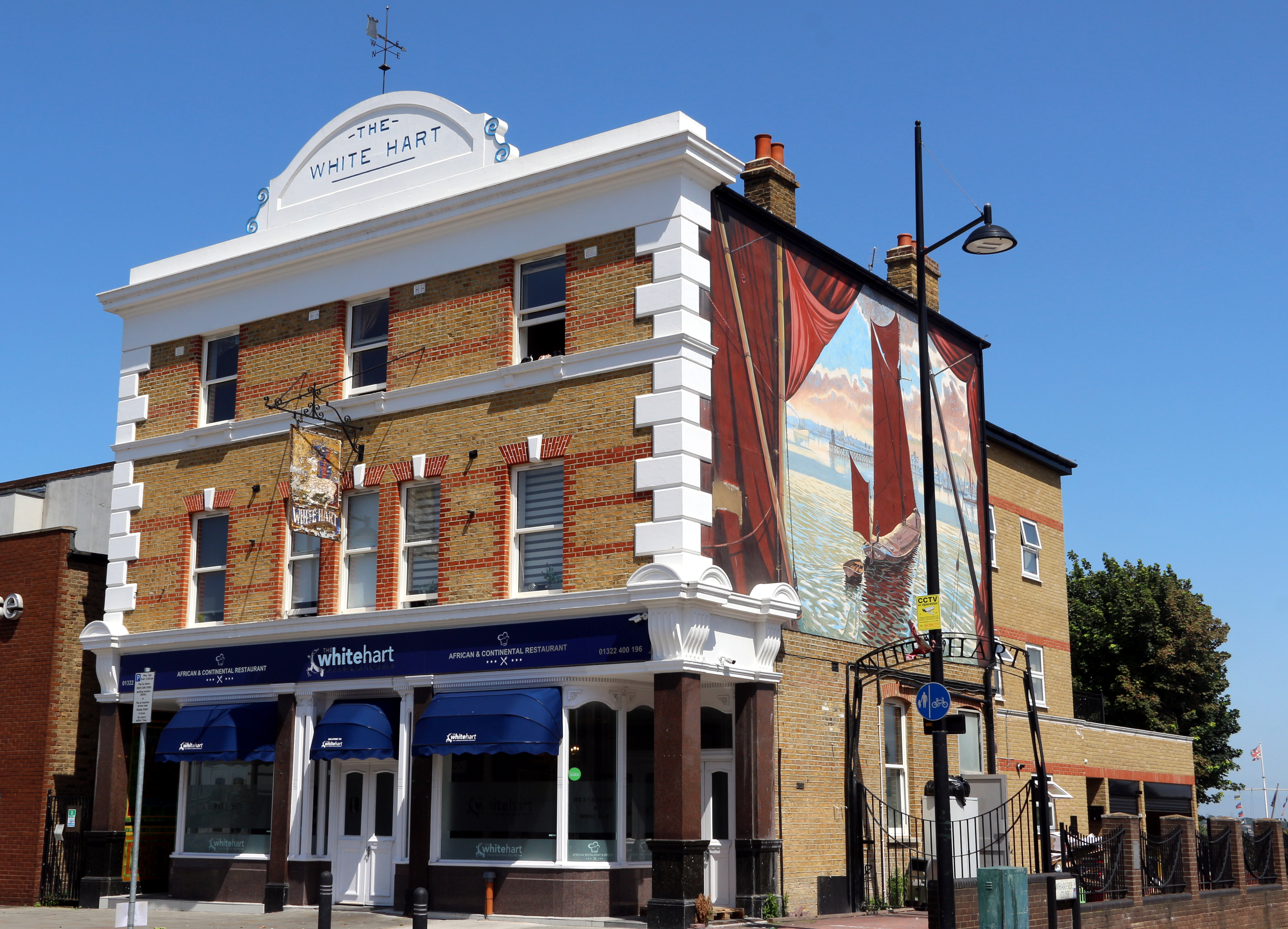 The White Hart in Erith, London. Rebuilt in it's current form in 1902.